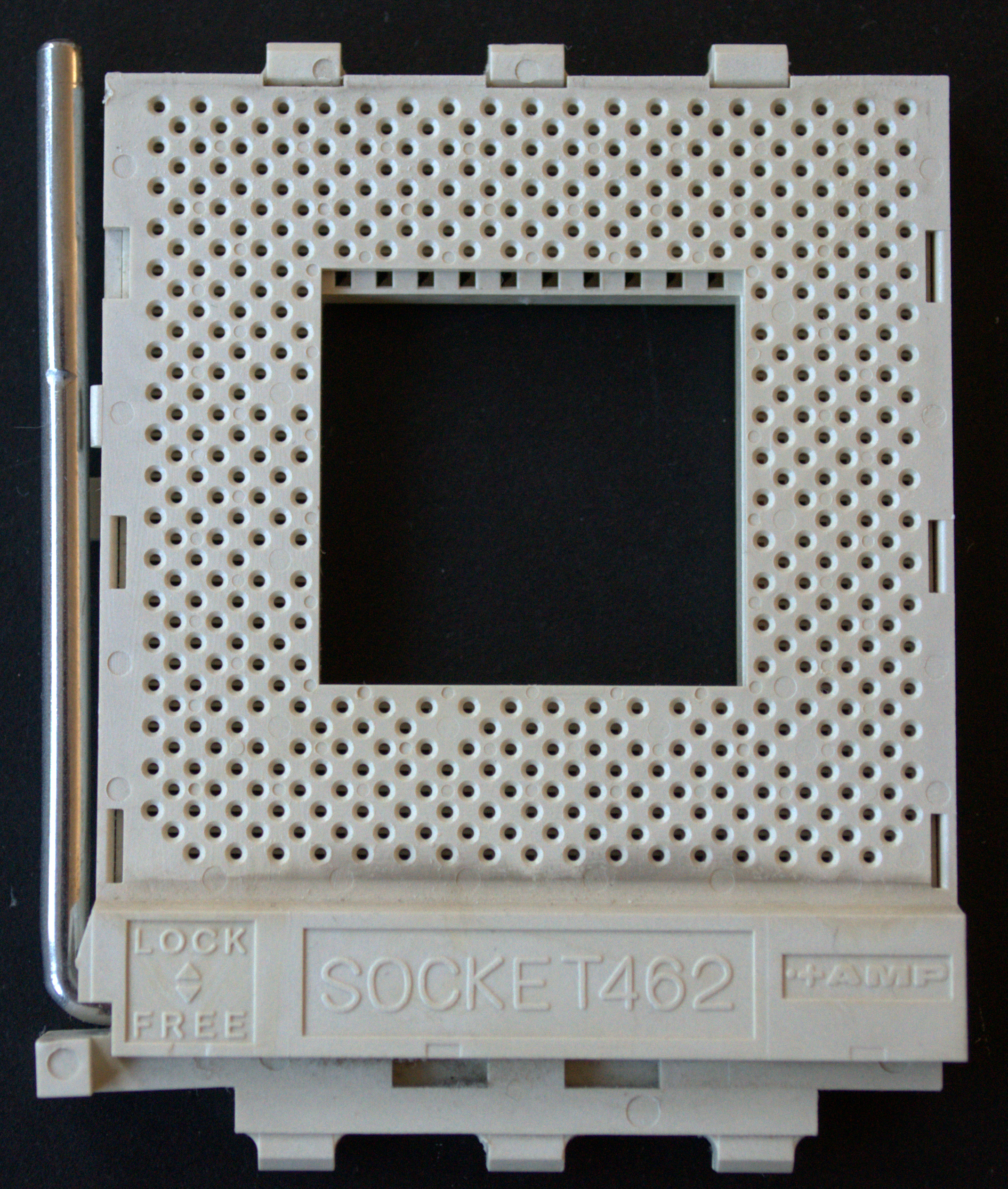 Picture of a socket 462.